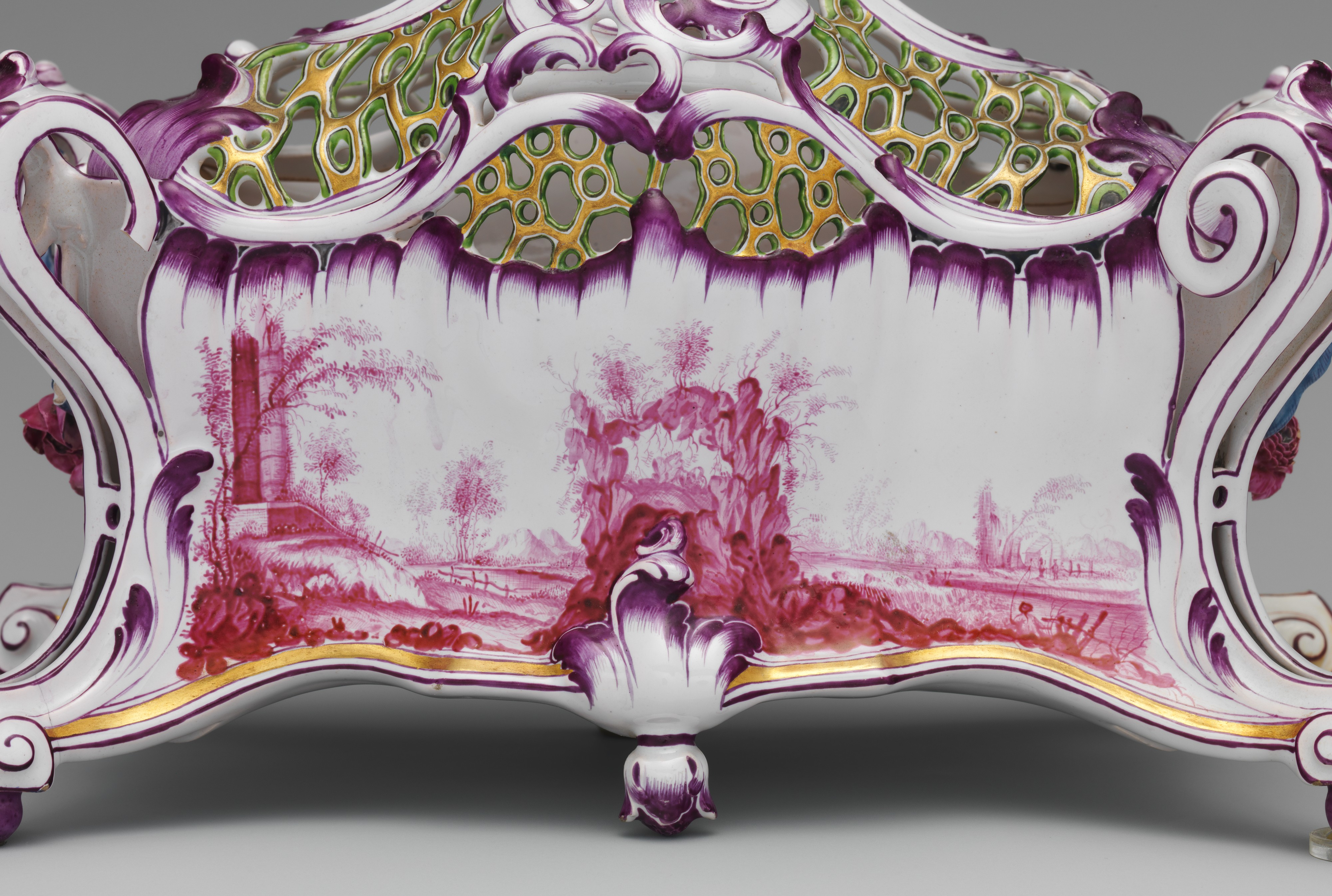 French, Niderviller; Potpourri with cover; Ceramics-Pottery